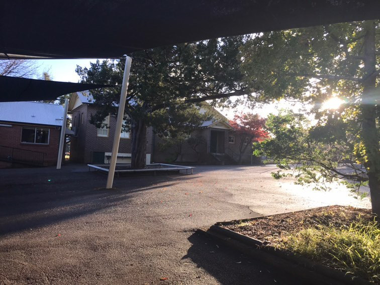 Glenbrook Centre in the grounds of Glenbrook Public School